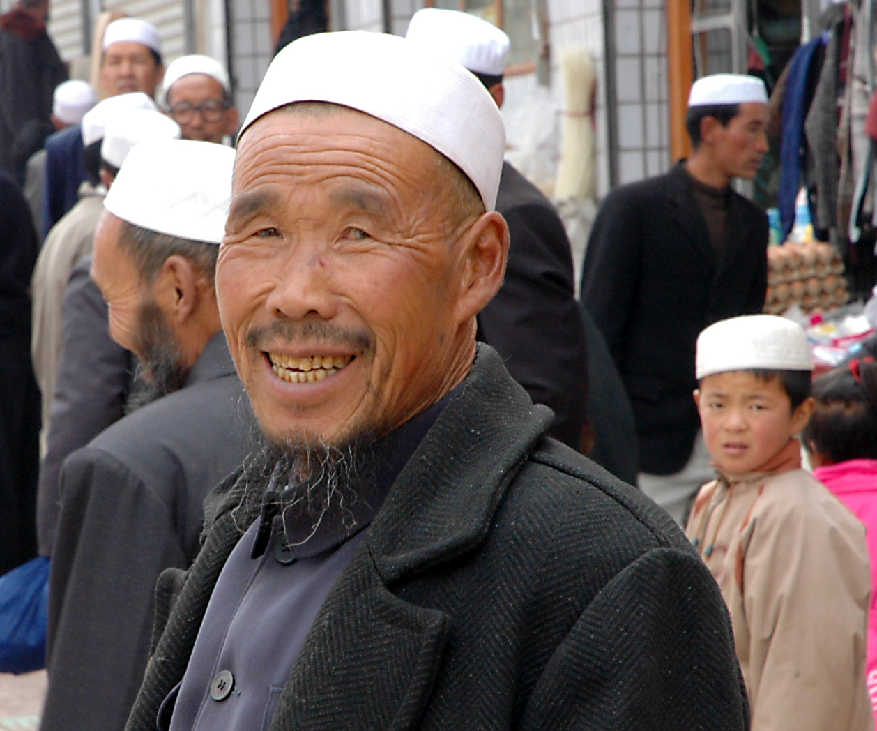 During Ramadan, just after prayers at noon on Friday, in Dongxiang County, Gansu.